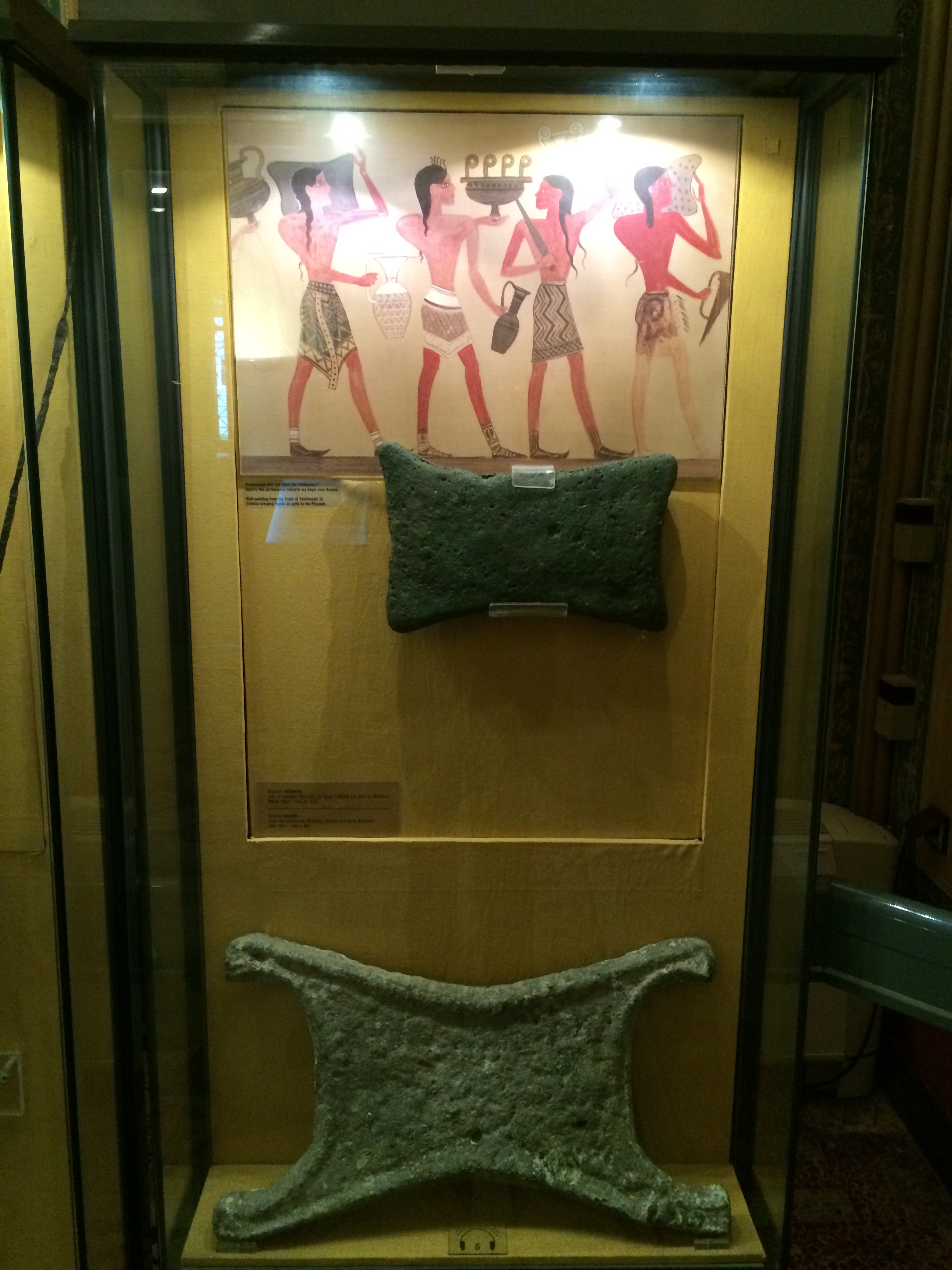 Oxhide ingots at the Numismatic Museum, Athens Numismatic Museum of Athens Native nameΝομισματικό Μουσείο ΑθηνώνLocationPanepistimiou Street, AthensCoordinates37° 58′ 40.08″ N, 23° 44′ 07.44″ E Established1893Web pageΝομισματικό Μουσείο ΑθηνώνAuthority control : Q658339 VIAF: 312739262 ISNI: 0000 0001 2256 5625 ULAN: 500306503 LCCN: n86033983 NLA: 35103356 WorldCat institution QS:P195,Q658339